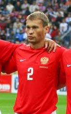 Vasily Berezutsky before home match against FYR Macedonia